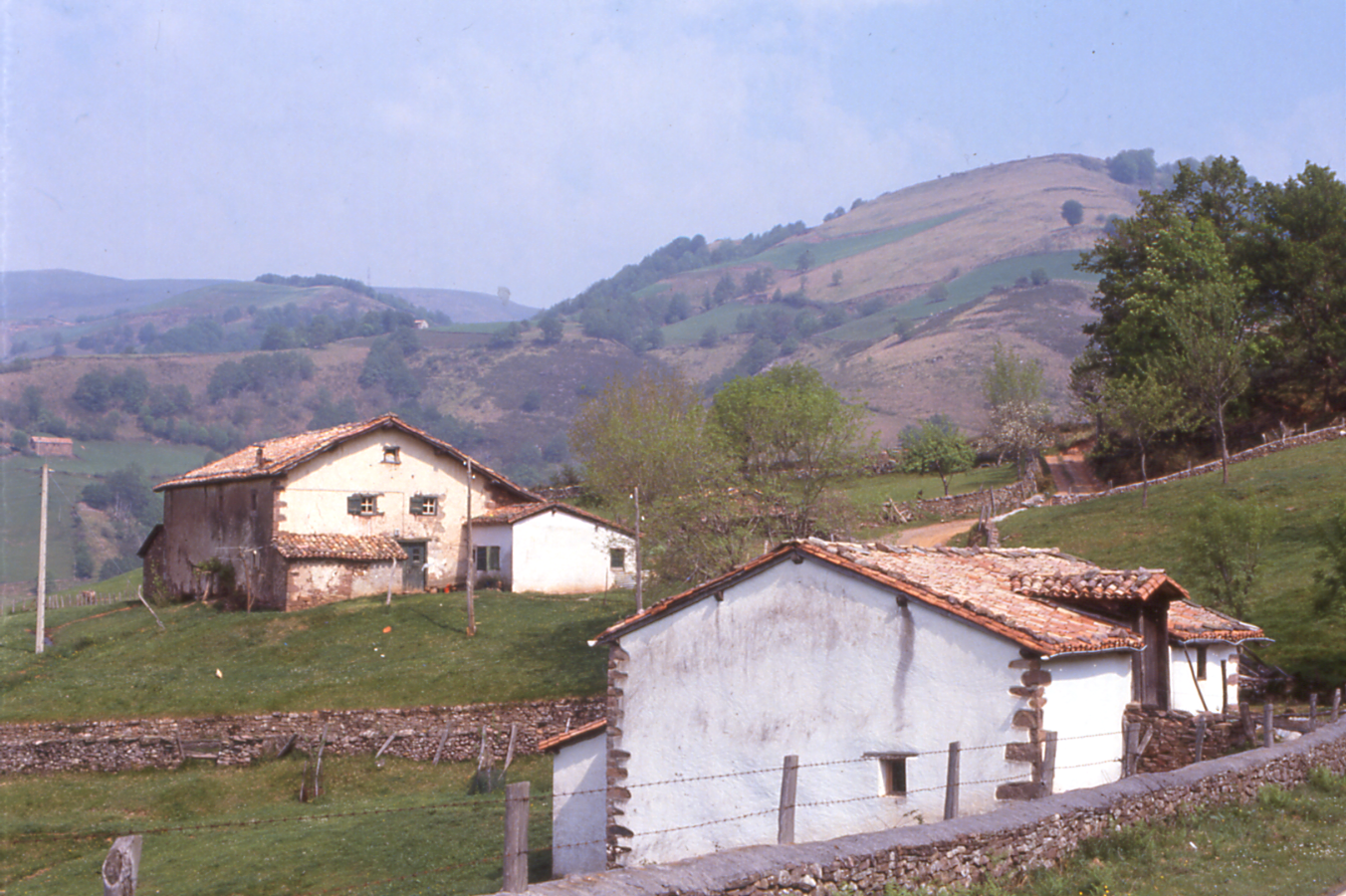 Typical farmouse in Navarra (Spain)